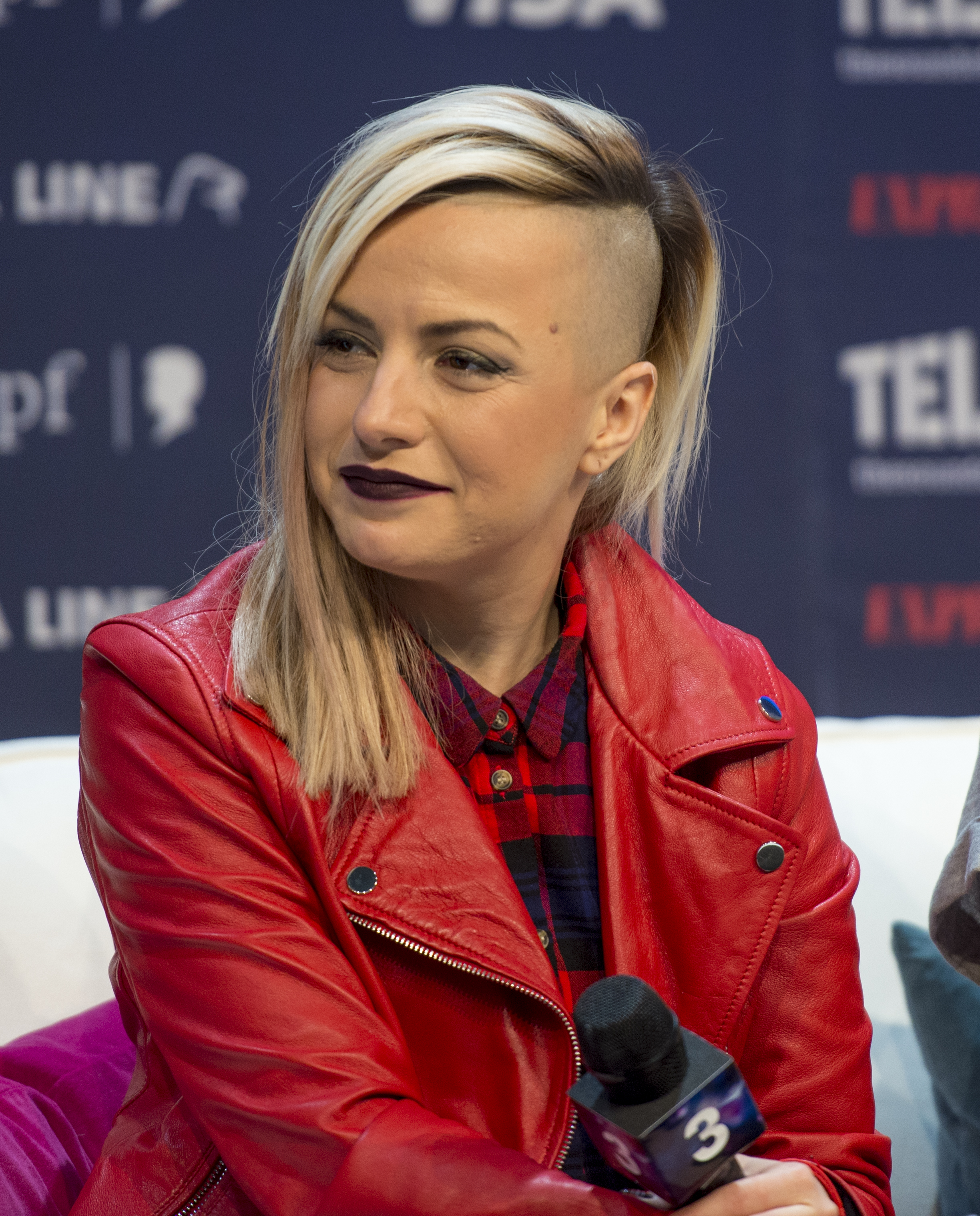 Poli Genova at a Meet & Greet during the Eurovision Song Contest 2016 in Stockholm. (Help translate this text)